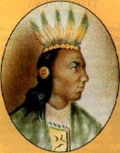 Portrait of HUNZAHUA, an indean ruler of muisca.